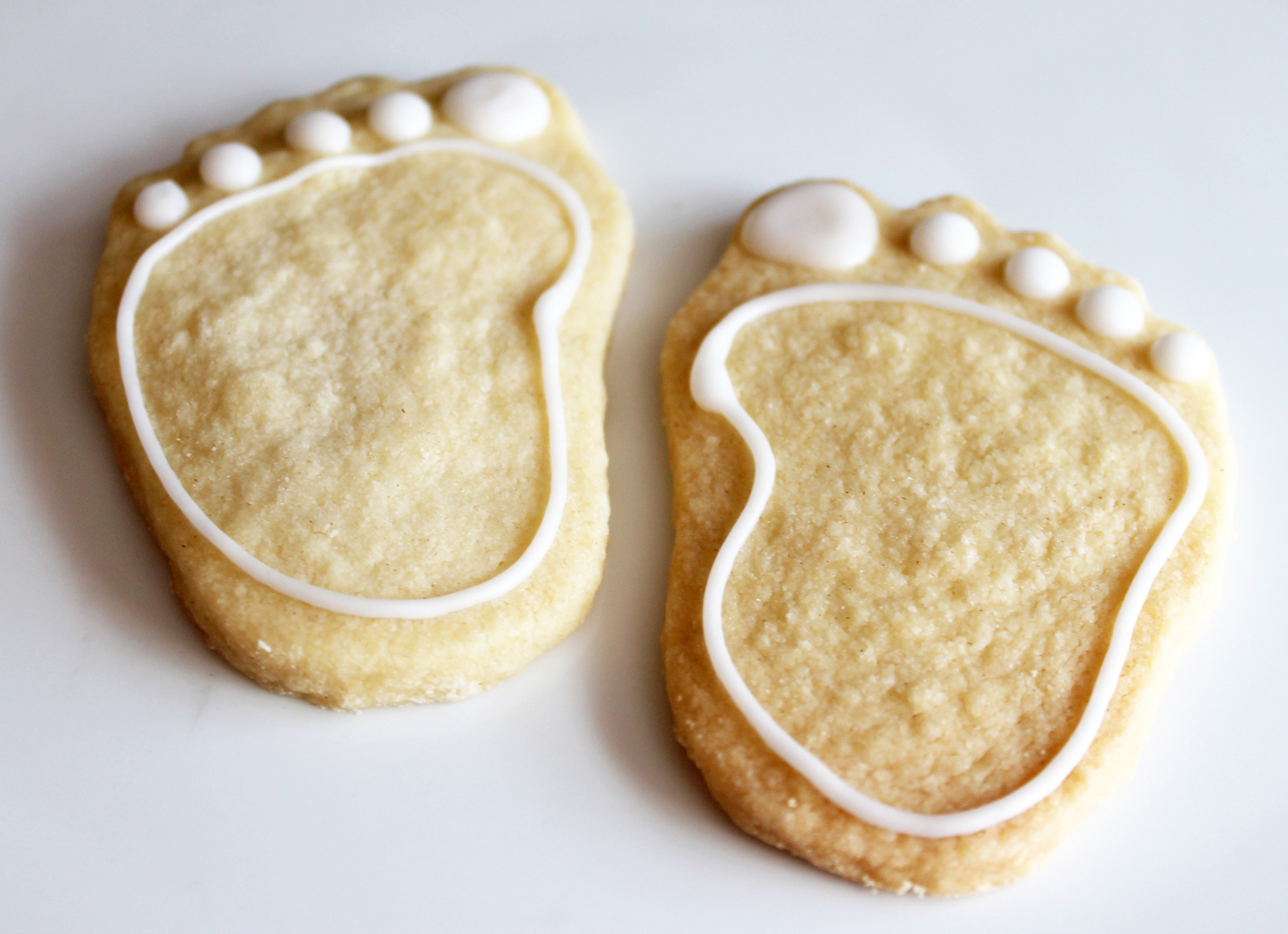 © Mandalina Bakery for cupcakes, cakes and other bakes in Farnborough